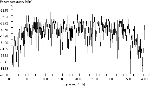 A spectrum of signal of V34 standard modem on a telephon line.